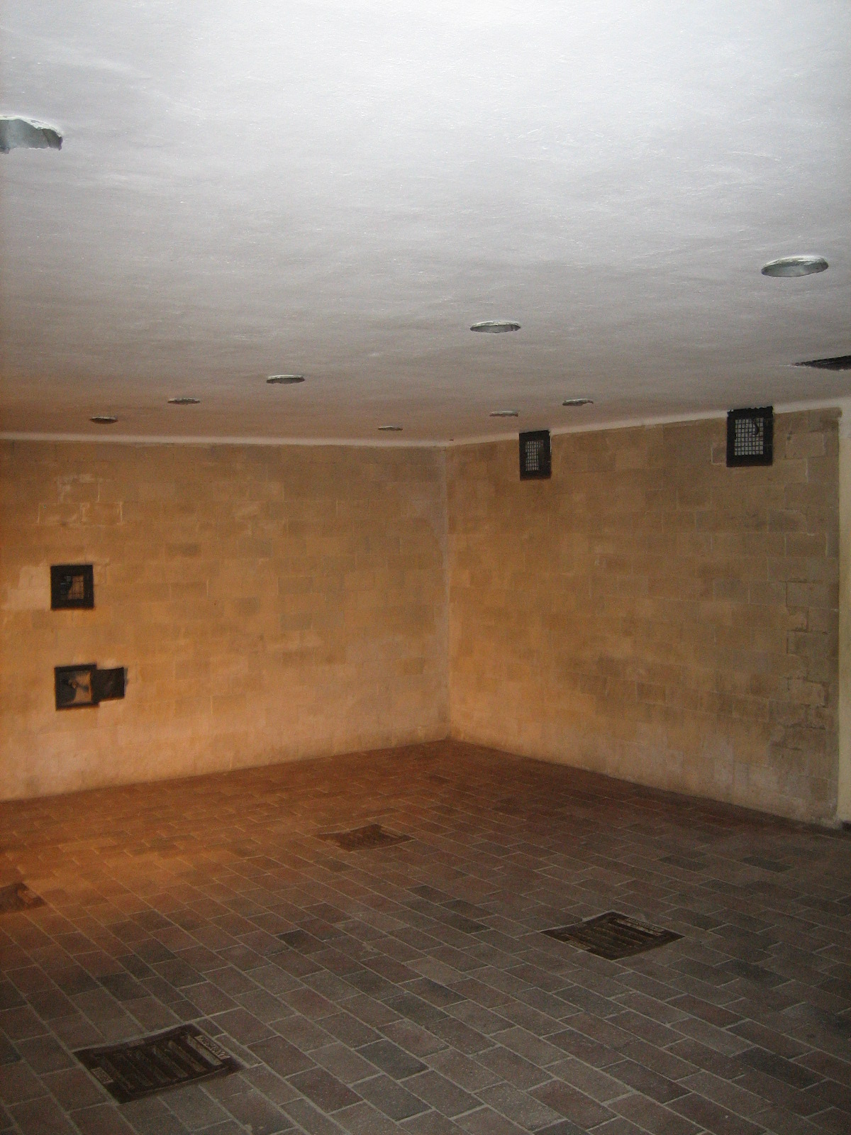 Exposition in Dachau, gas chamber